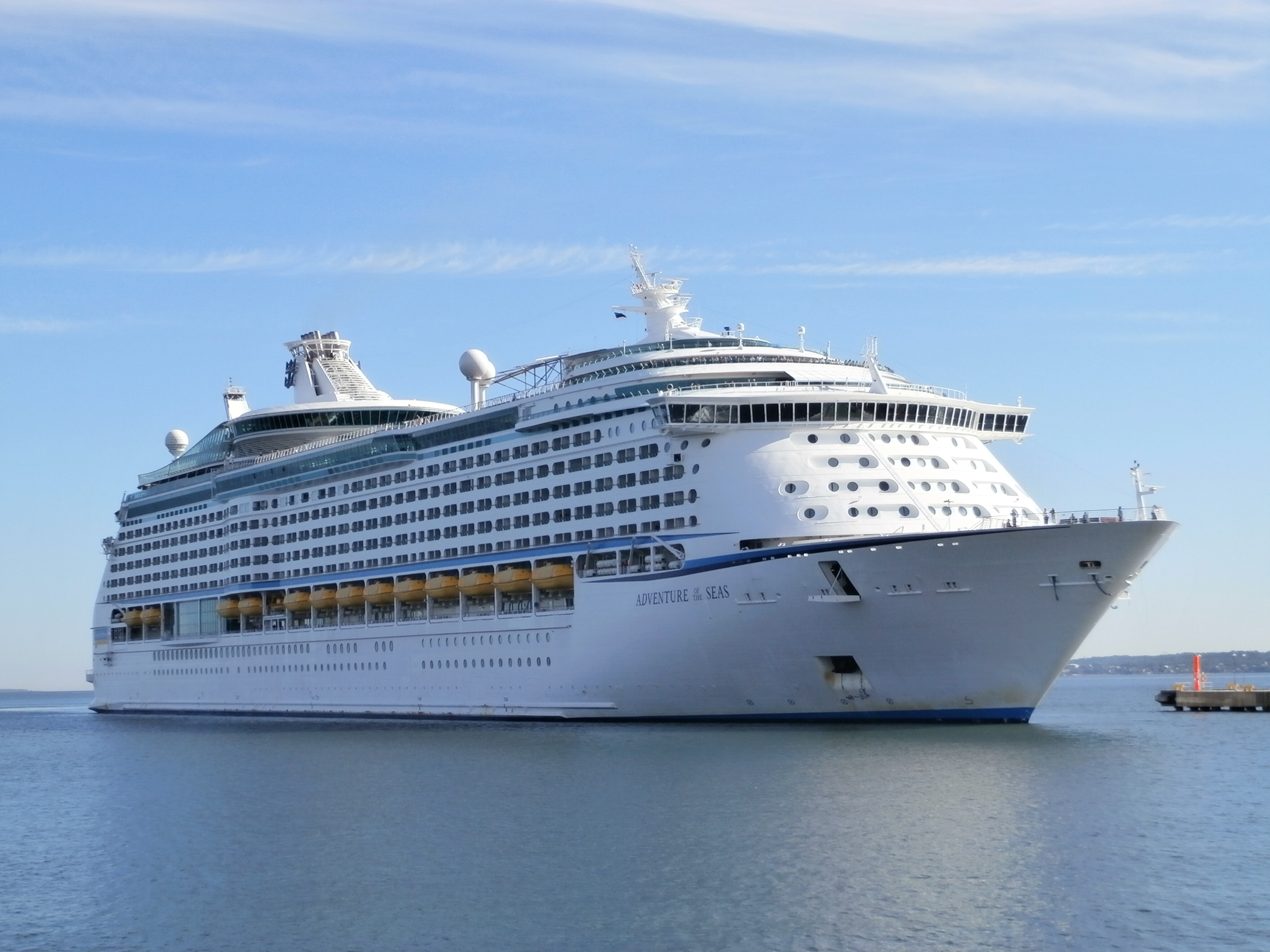 Cruise ship Adventure of the Seas arriving Tallinn 18 June 2013